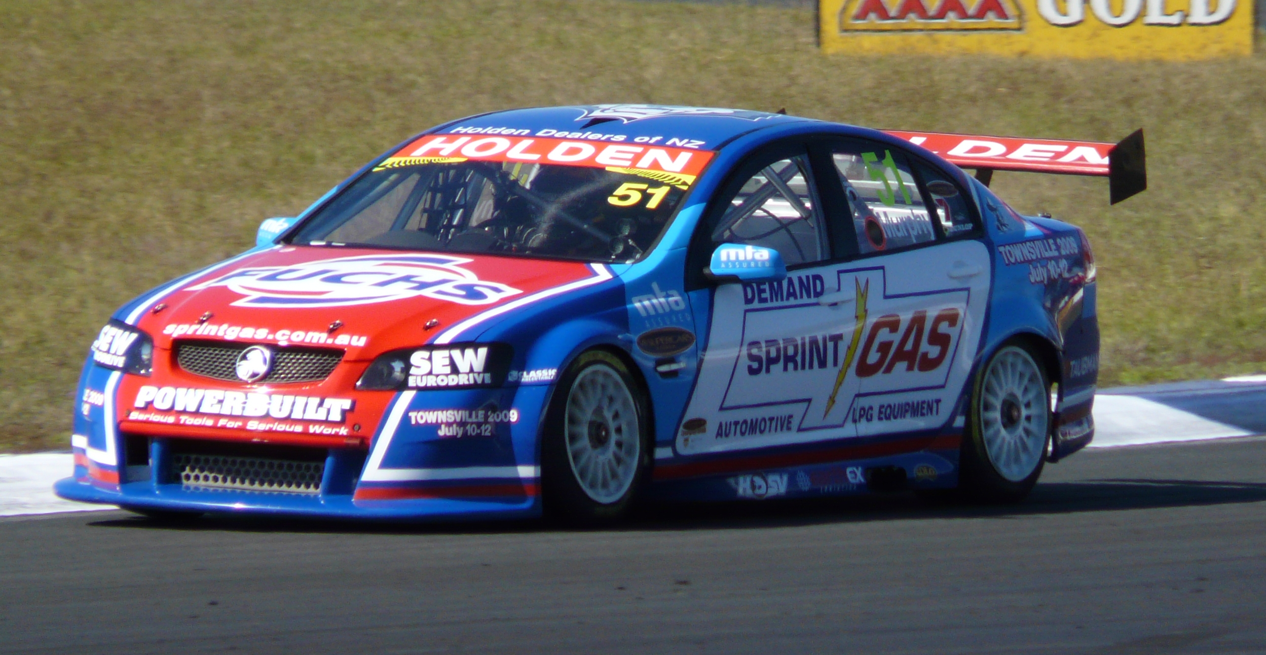 Greg Murphy at Queensland Raceway